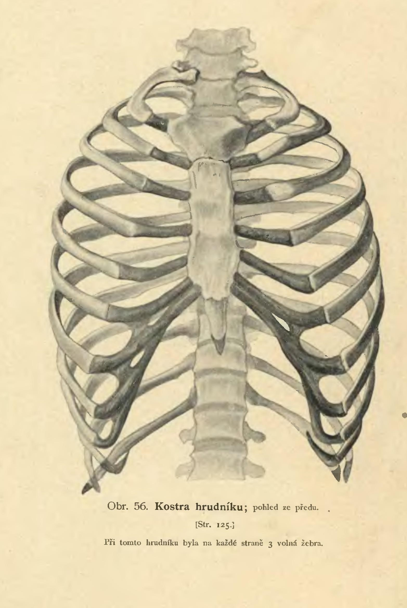 Human rib cage in an anathomical atlas